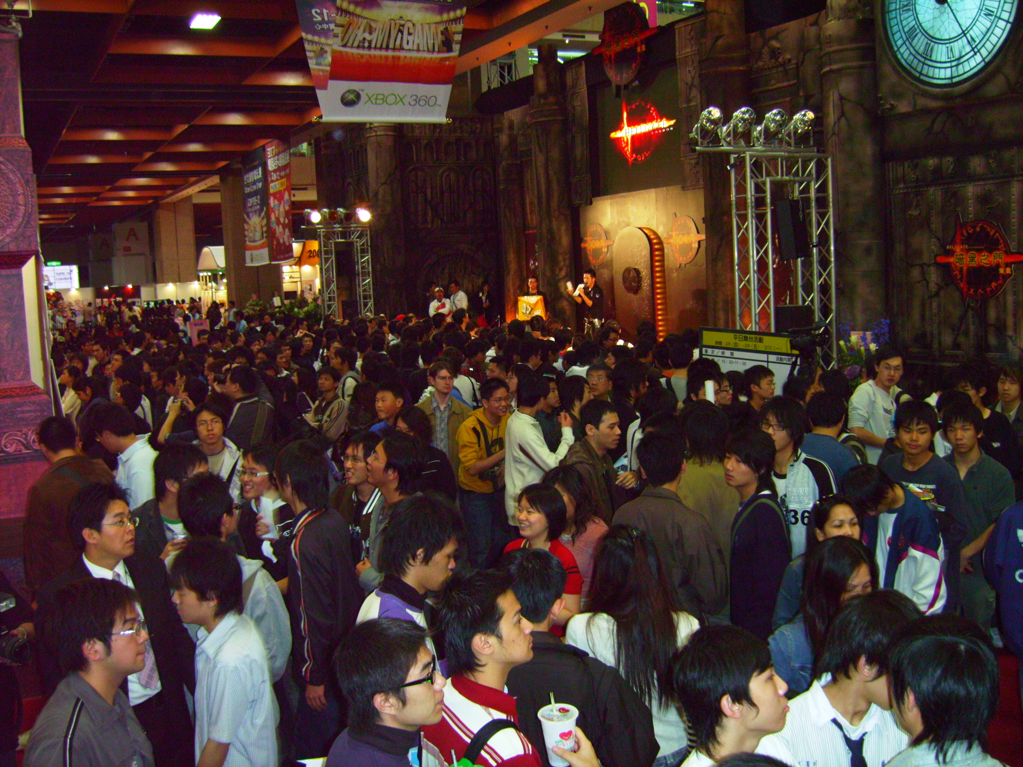 At Taipei World Trade Center Xinyi Road Main Entrance had crowded people at 2007 Taipei Game Show.